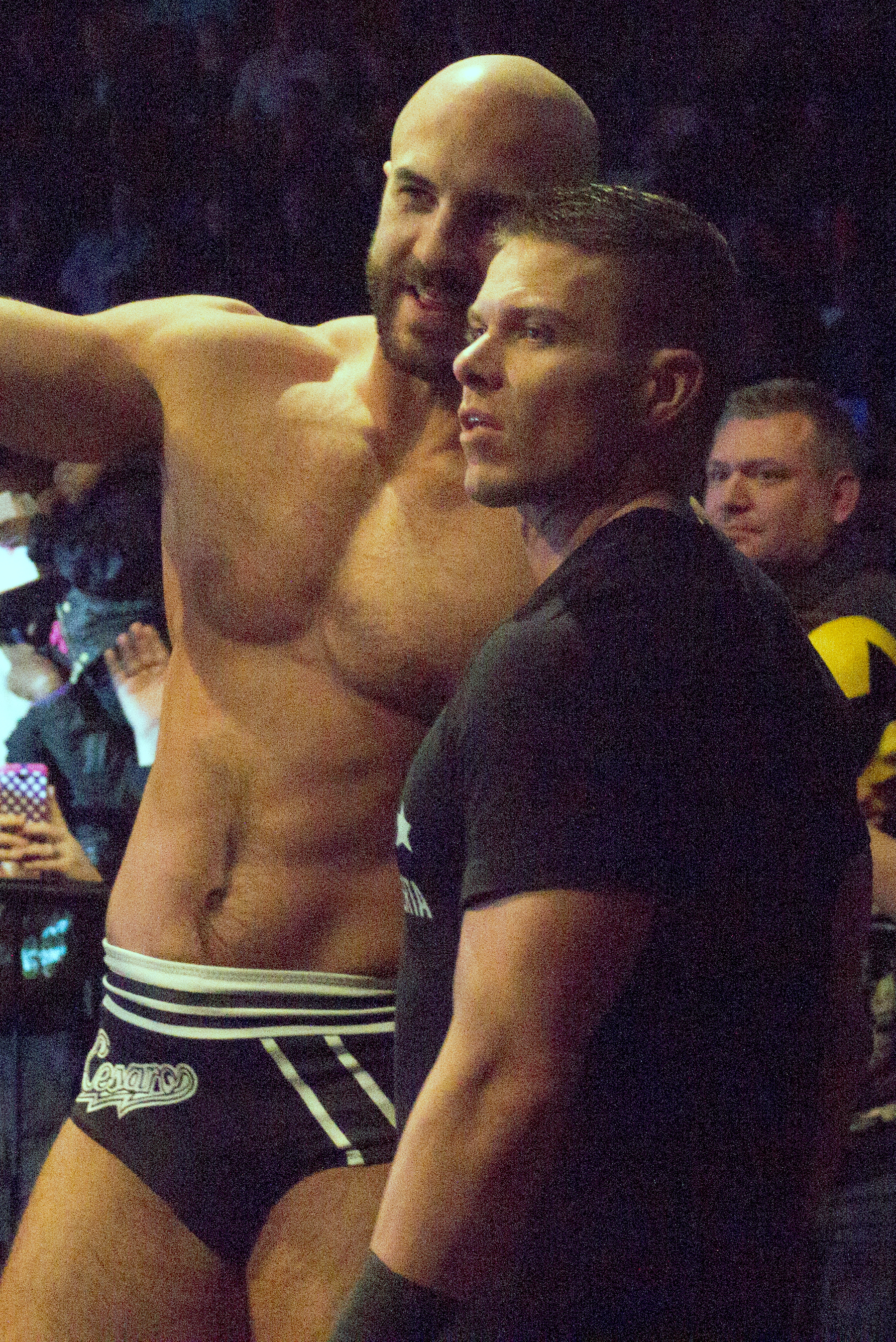 Tyson Kidd and Cesaro at a WWE event in the Garrett Coliseum on January 10, 2015. Cropped from original and colour corrected.